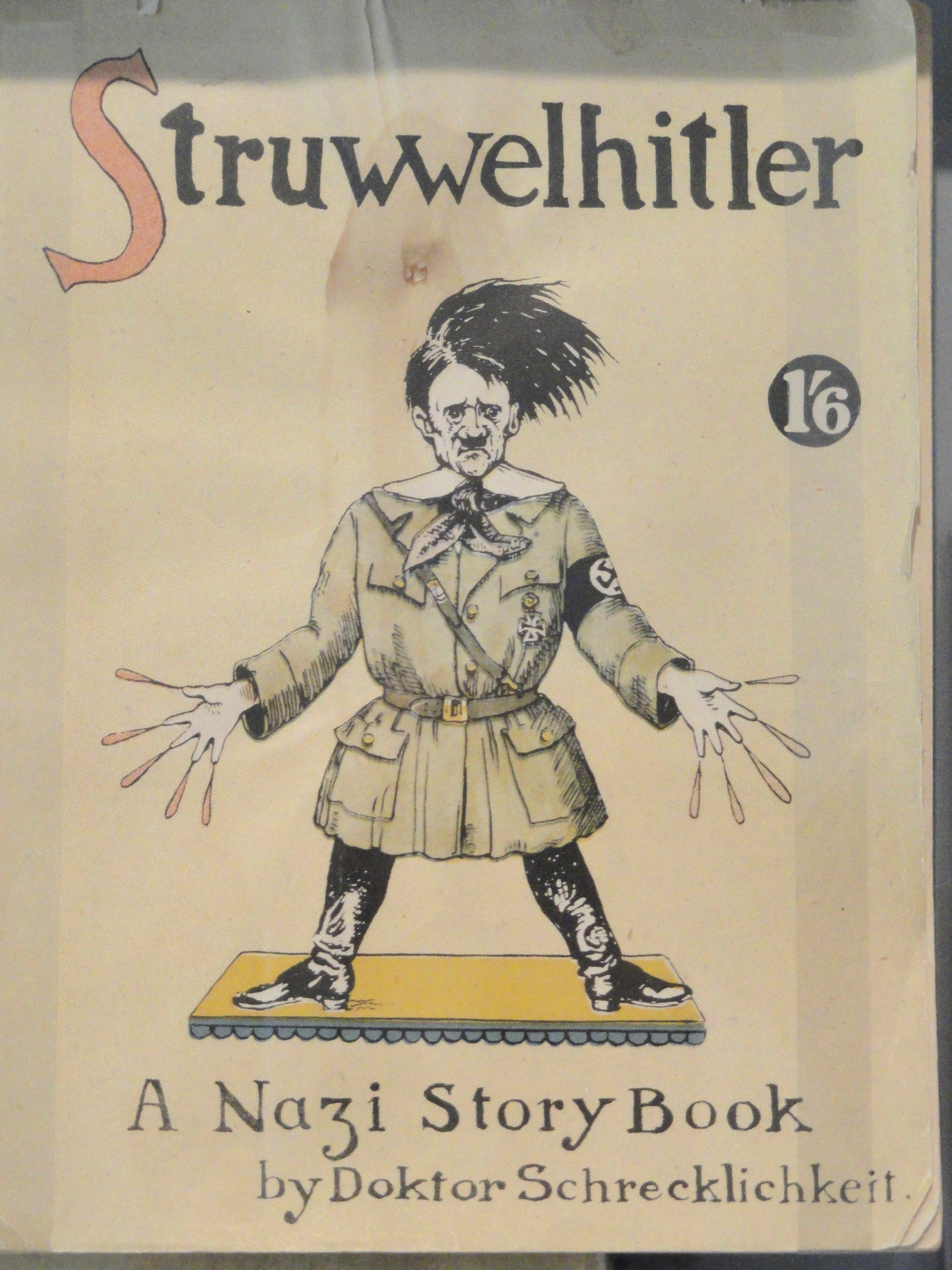 Books in the Struwwelpeter Museum, Schubertstr. 20 60325 Frankfurt am Main, Germany. (I asked). Artwork is old enough so that it is in the public domain. I took this photograph and release it into the public domain.